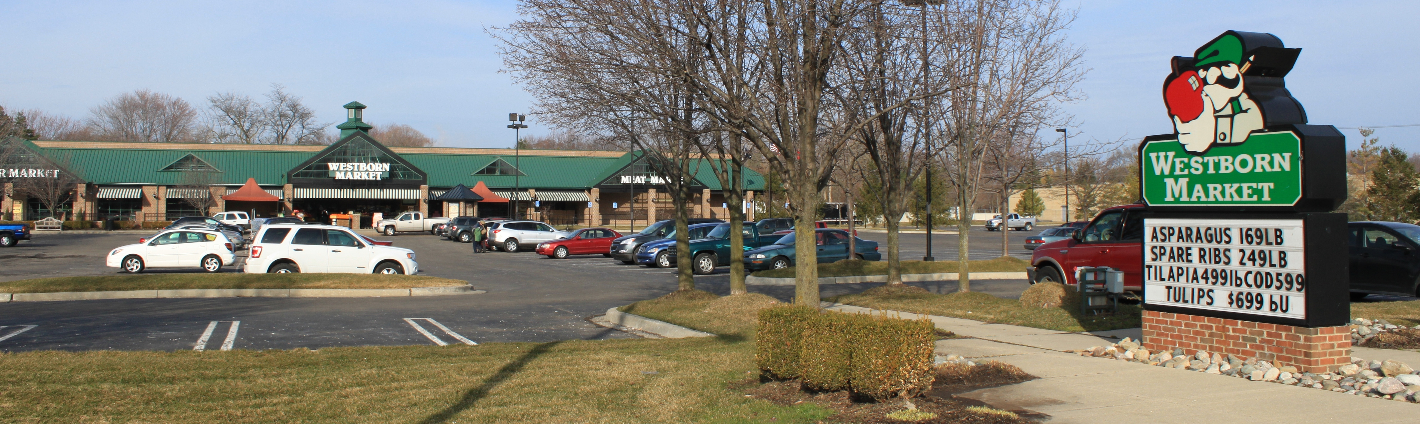 Westborn Market, 14925 Middlebelt Road, Livonia, Michigan